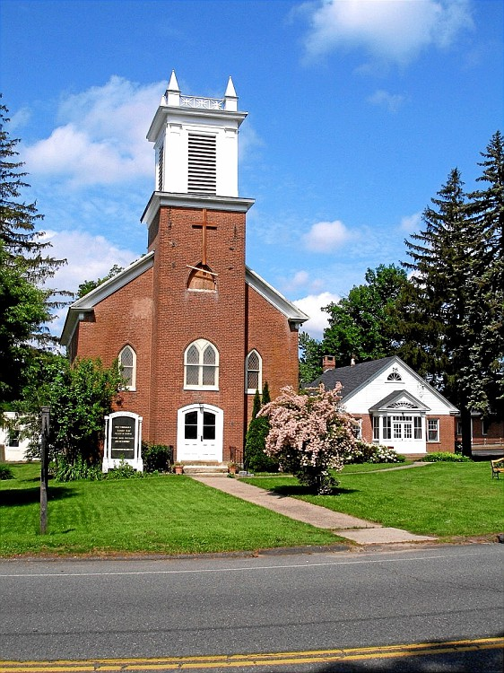 Christ Church, Bethlehem, Connecticut. Part of the Bethlehem Green Historic District.